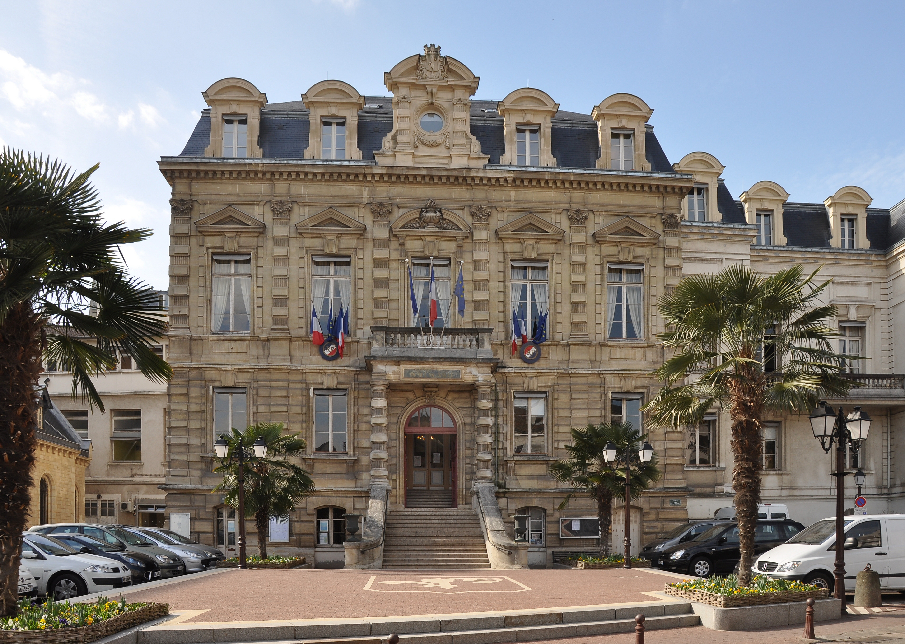 The Town Hall of Saint-Cloud in Hauts-de-Seine, France.